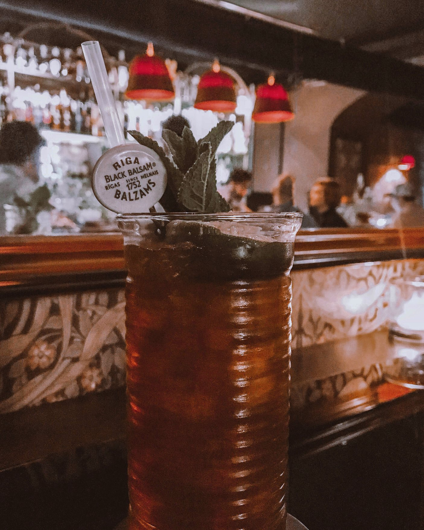 Riga black balsam cocktail